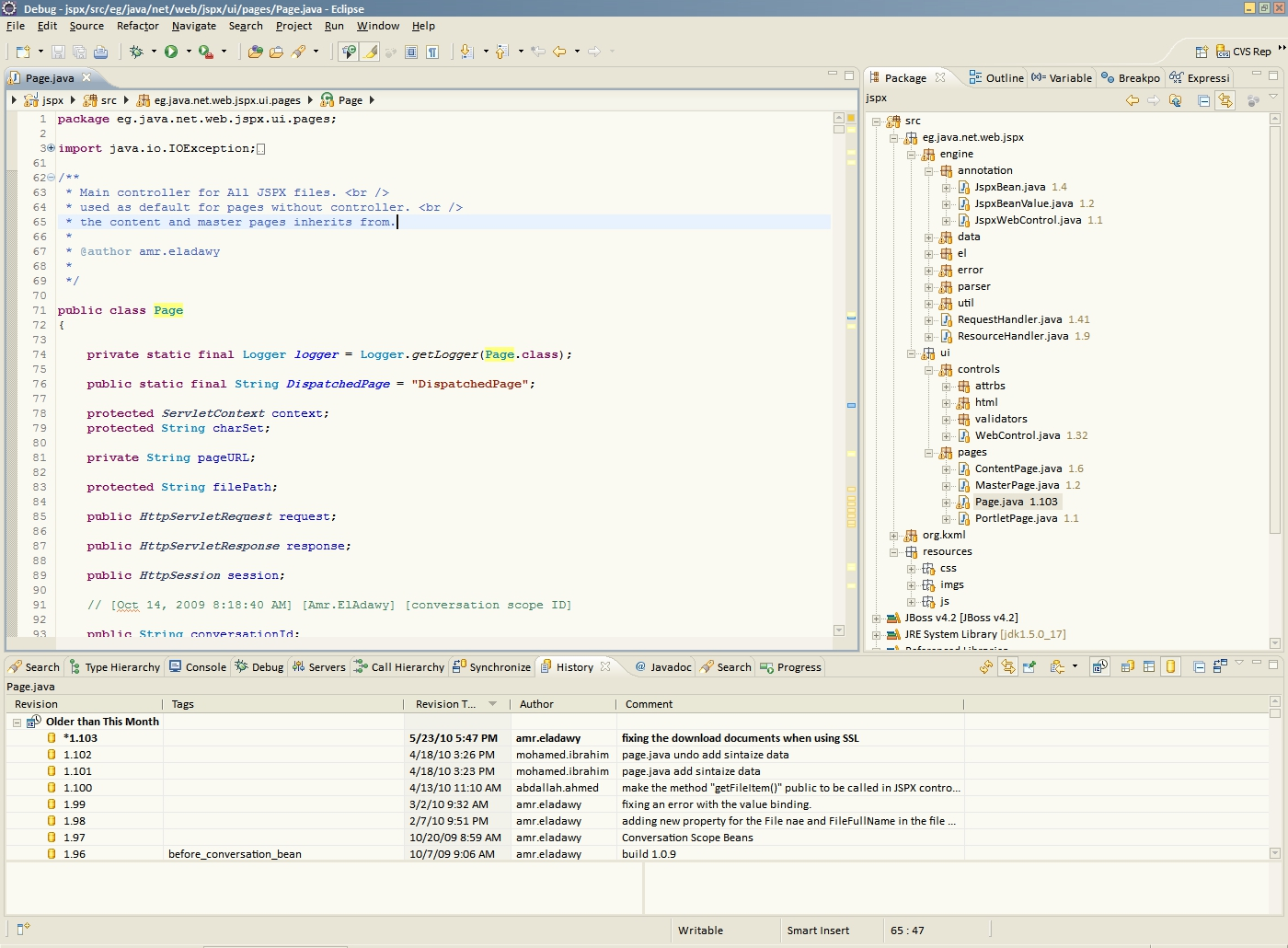 Eclipse 3.6 Helios Preview